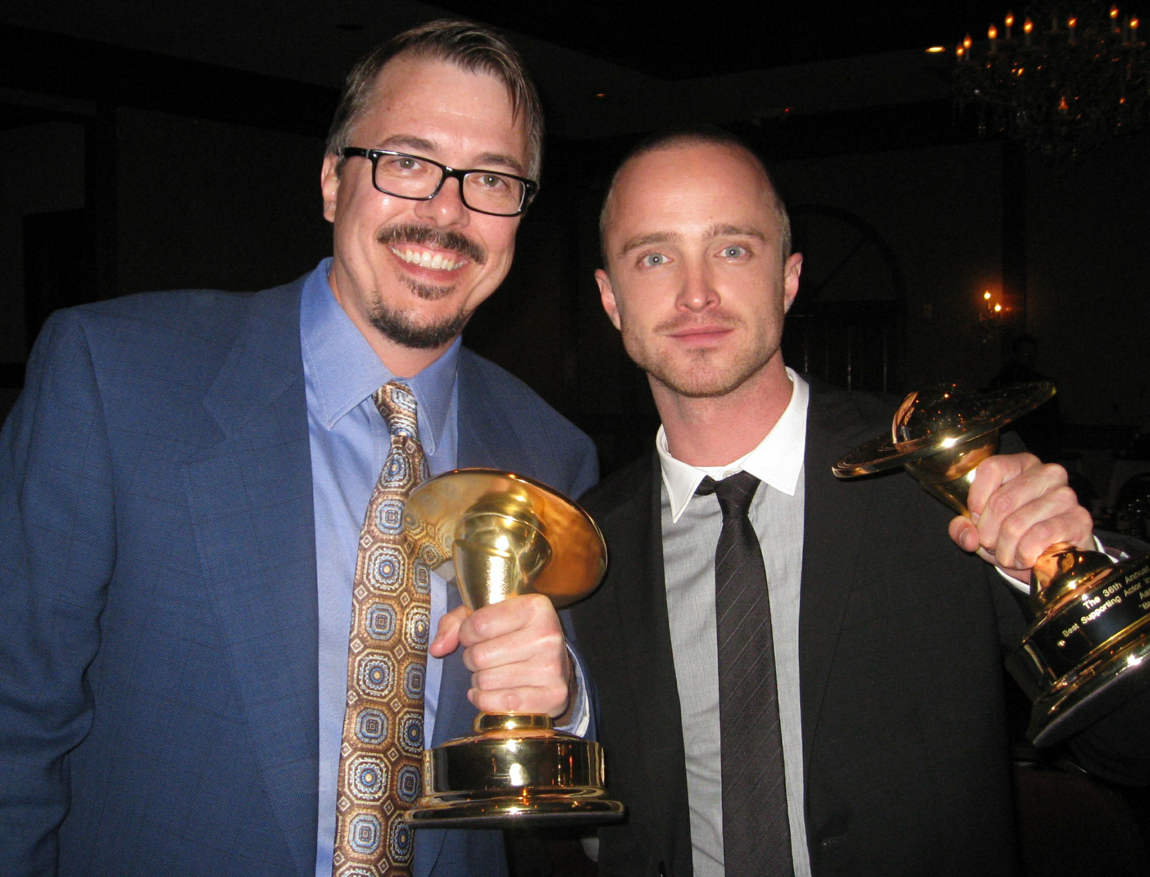 "Breaking Bad" winners Vince Gilligan and Aaron Paul